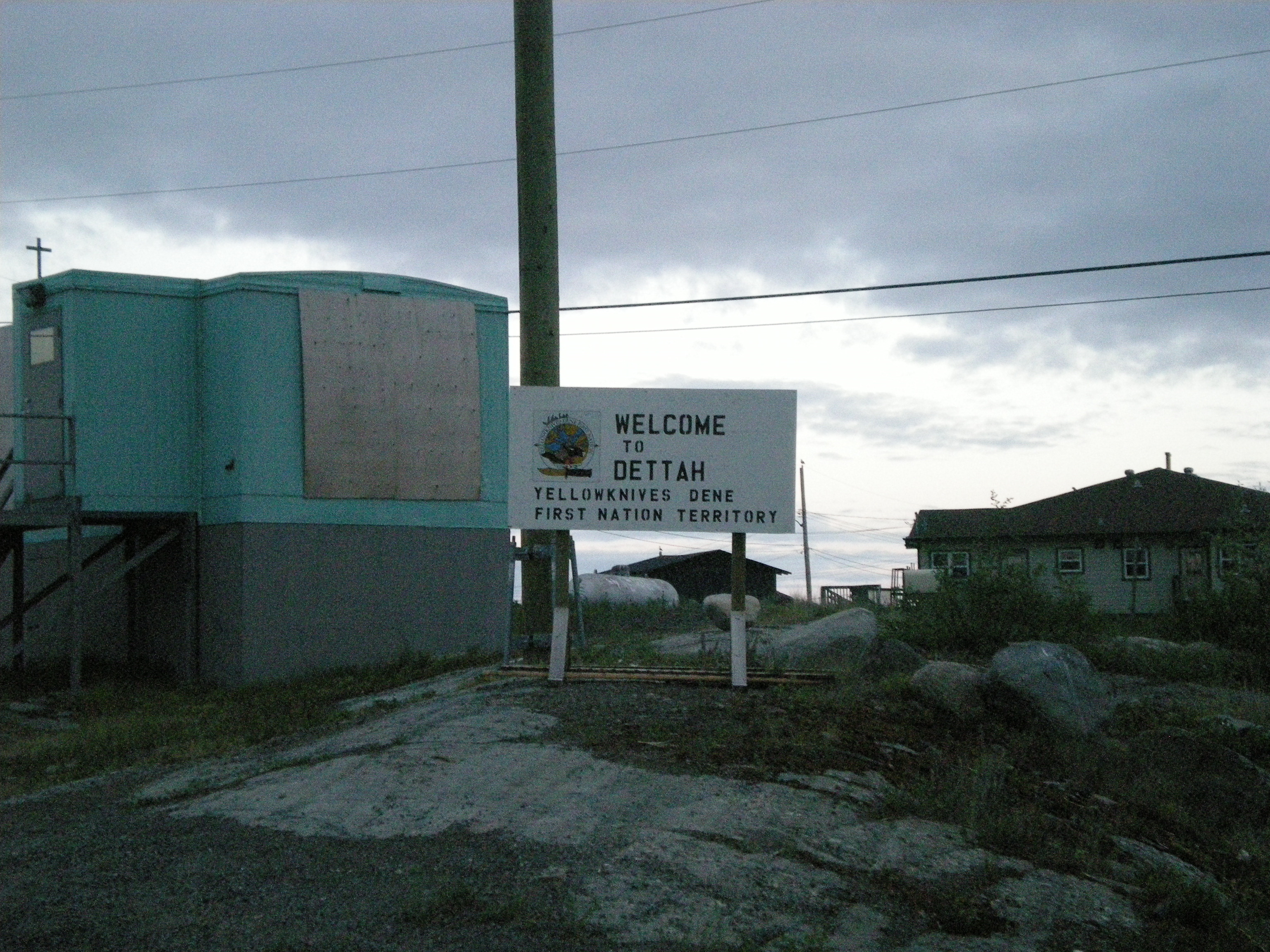 Welcome to Dettah